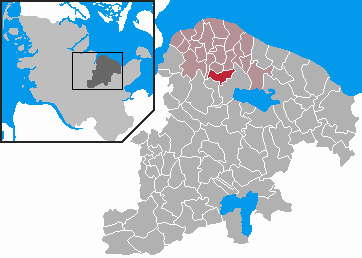 This map shows the area of the Gemeinde (municipality) Stoltenberg in the Kreis (district) Plön, Schleswig-Holstein, Germany.